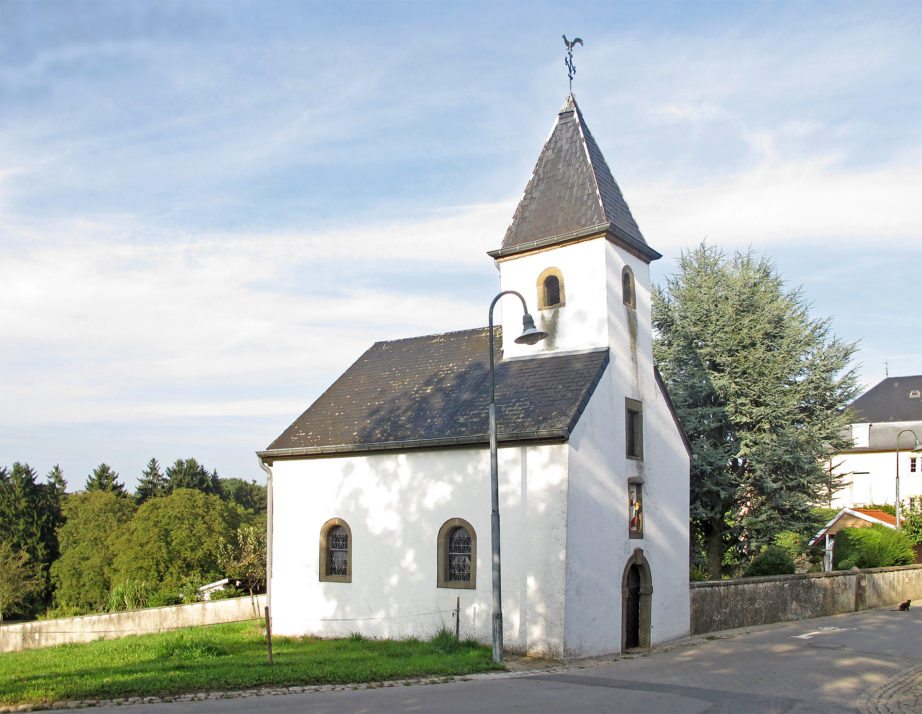 Chapel in Colbette, Luxembourg